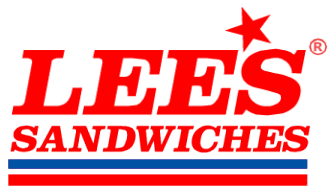 Official logo of Lee's Sandwiches.